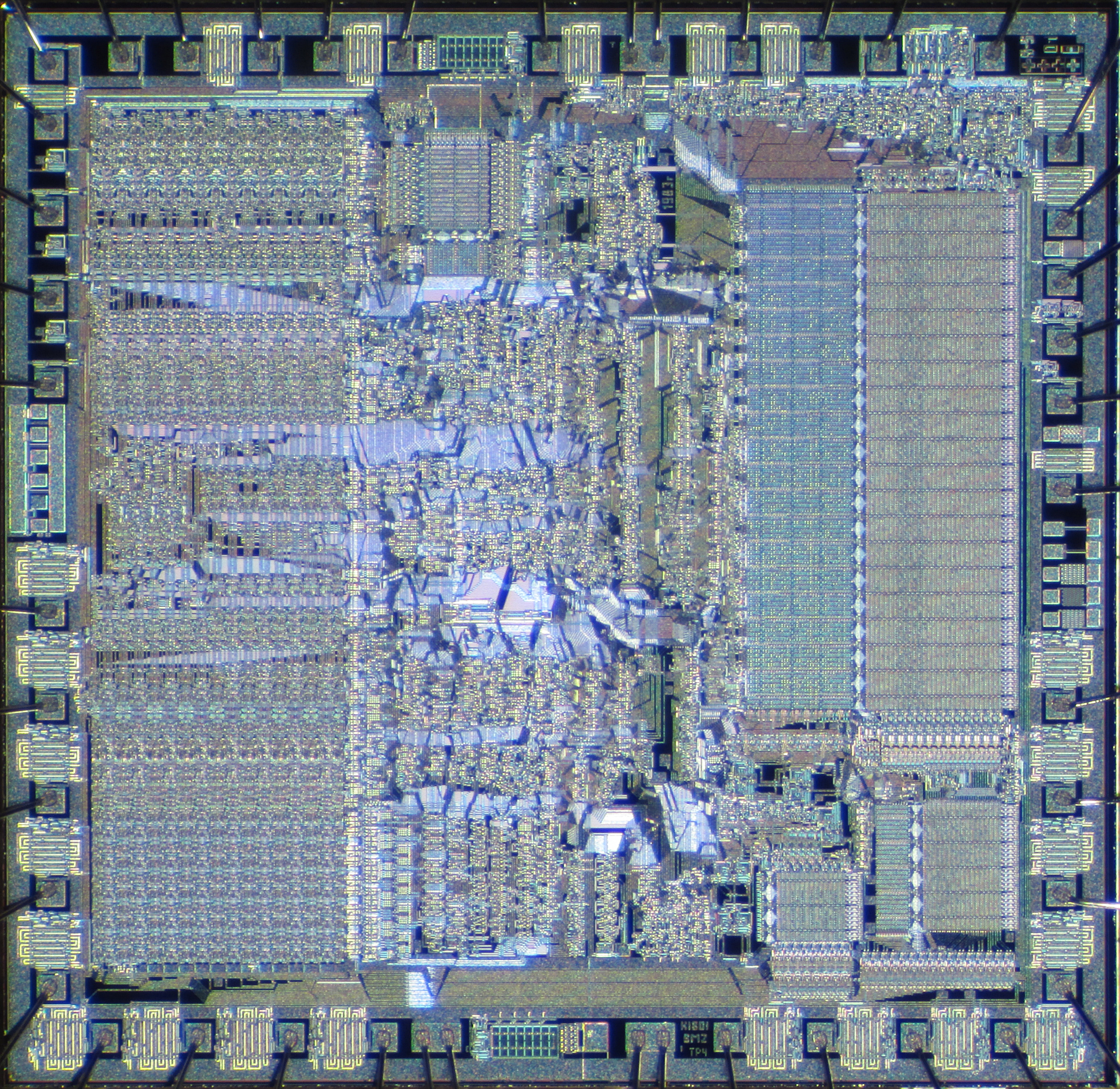 Die shot of Soviet KM1801VM2 microprocessor.